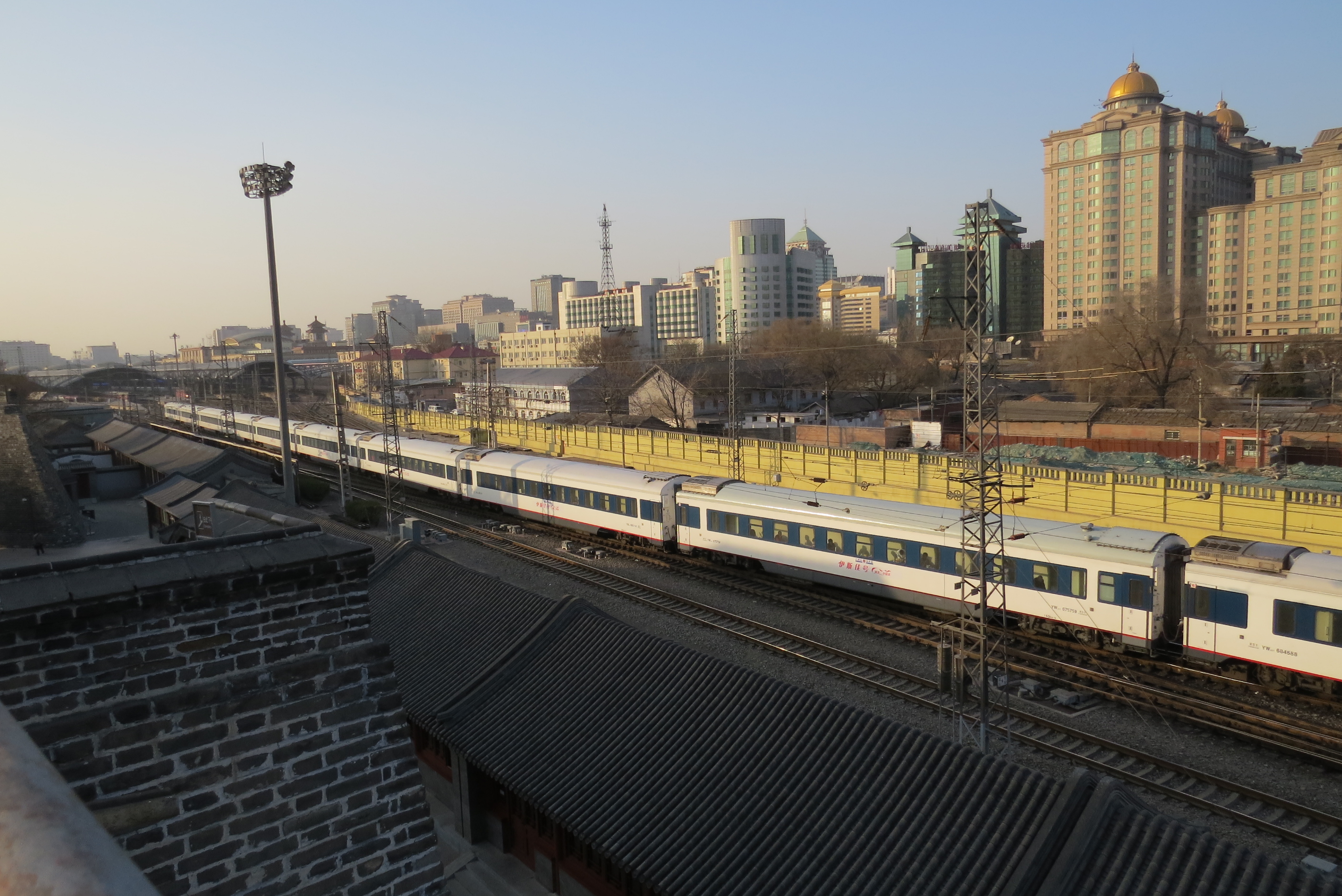 Photo taken from the Southeast Corner Guard Tower Park of Beijing.